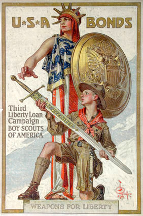 World War I Liberty Bond poster, "Weapons for Liberty – U.S.A. Bonds." An appeal to youth to sell war bonds using the scene of a Boy Scout lifting a sword toward Lady Liberty